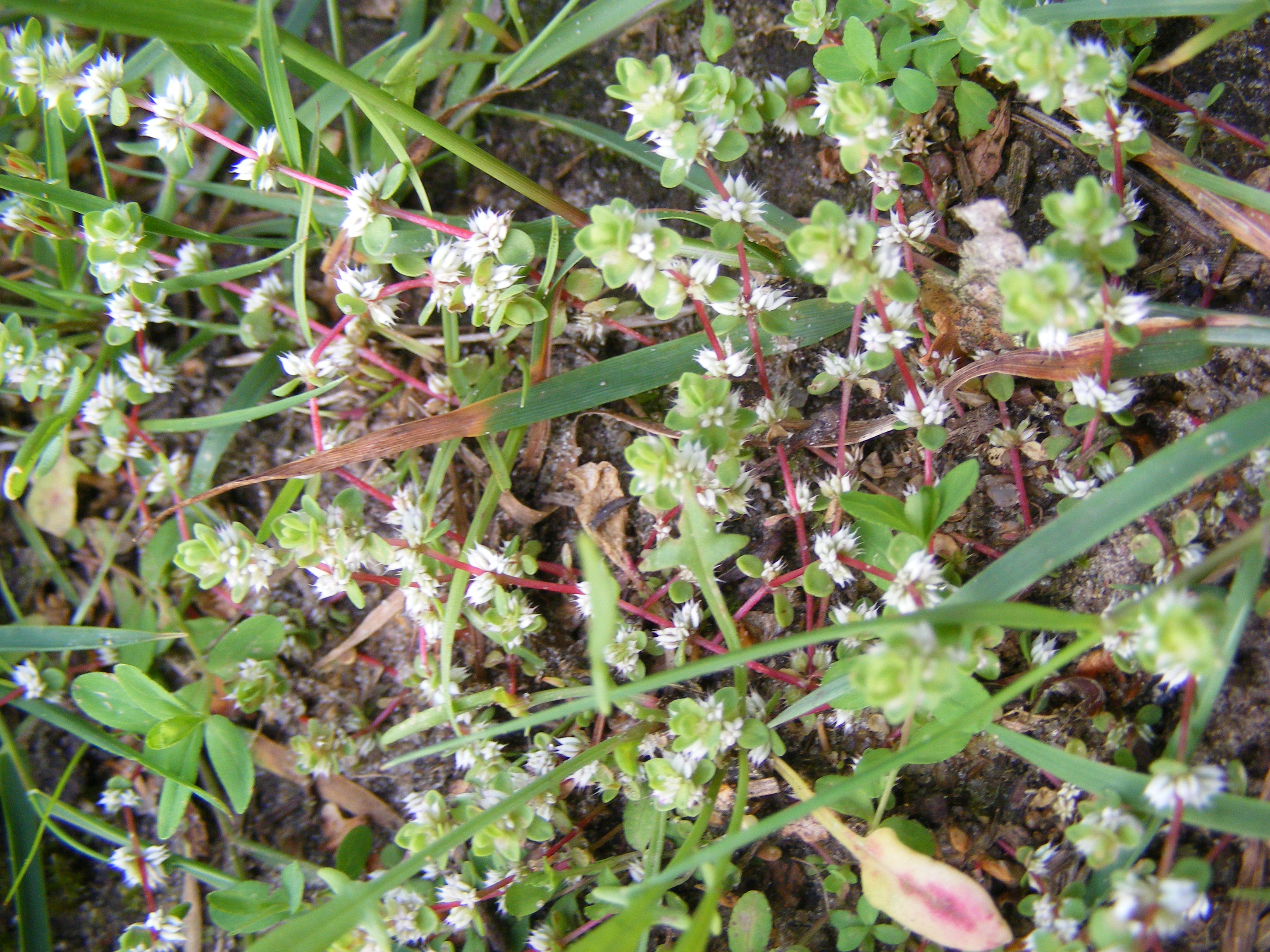 This photo shows Illecebrum verticillatum